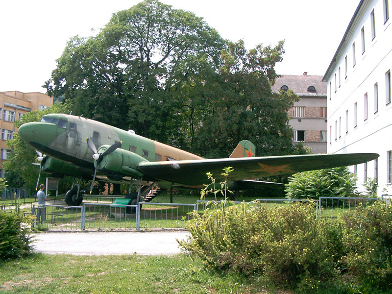 Li-2 Lisunov - Museum of Slovak National Uprising, Banska Bystrica, Slovakia